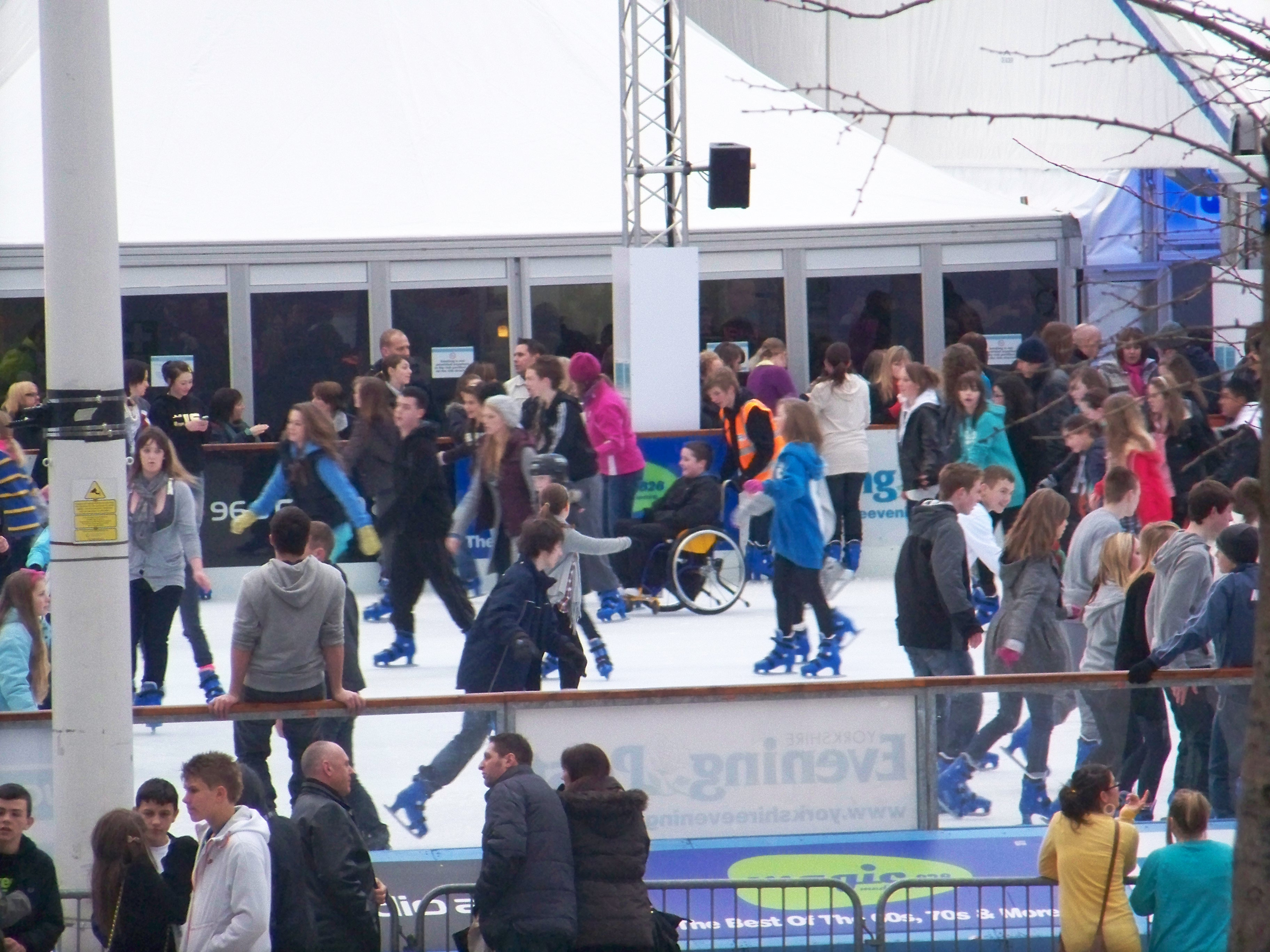 Daytime skating on the Leeds Ice Cube. Taken on the afternoon of Saturday the 23rd of January 2010.